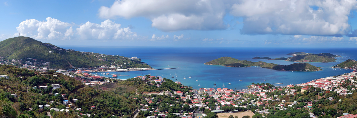 Panoramic view of Charlotte Amalie, the capital of the United States Virgin Islands, located on the island of Saint Thomas. Viewed from Lookout Point on Skyline Drive (Route 40).